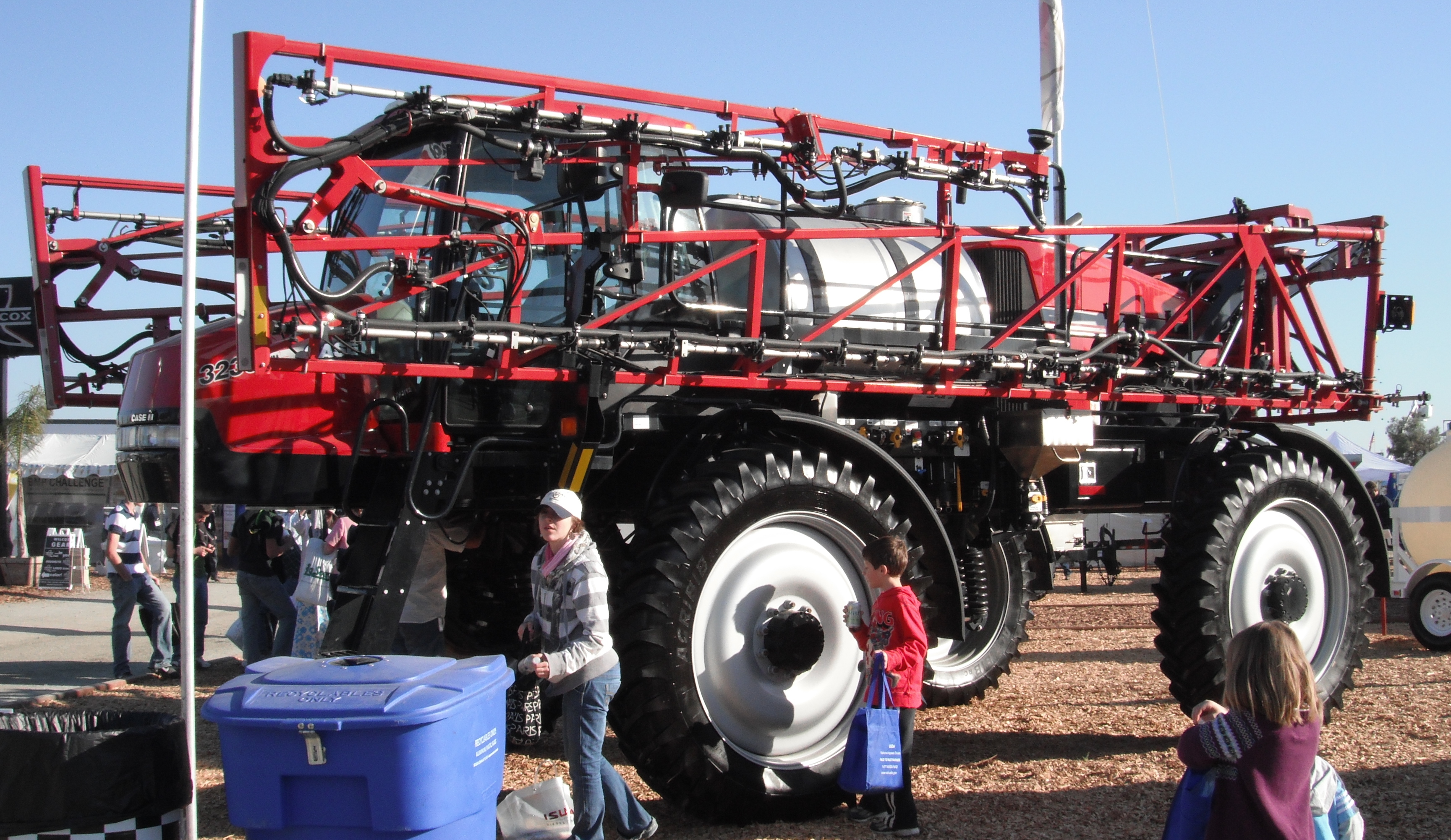 A Case International Harvest 3230 Sprayer. Notice the booms are folded in. The wheels are not on any axles to achieve a high clearance. The picture was taken at World Ag Expo 2011.